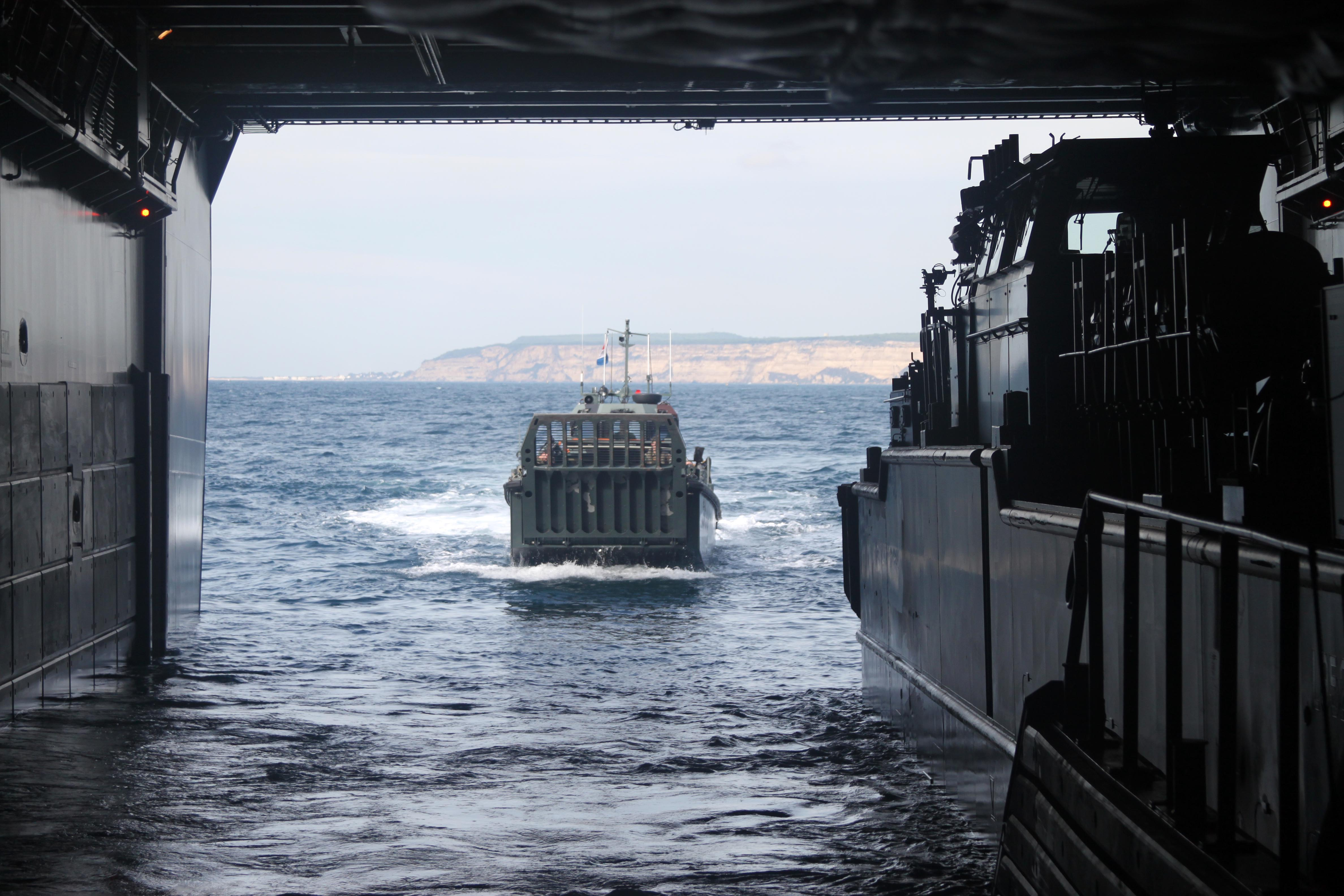 151023-USAN-2994B-008 – SIERRA DEL RETIN, Spain – A Dutch landing craft prepares to enter the well deck of the landing platform dock (LPD) HNLMS JOHAN DE WITT following an amphibious landing demonstration for Exercise TRIDENT JUNCTURE 2015. The Royal Netherlands Navy is being certified to lead the amphibious forces in the 2016 NATO Response Force. Ships in Task Group 445.03 include HNLMSJOHAN DE WITT, the frigate HNLMS TROMP, the hydrographic survey vessel HNLMS SNELLIUS, and Dutch Marines. Credit: U.S. Navy photo by Commander David Benham (Released)